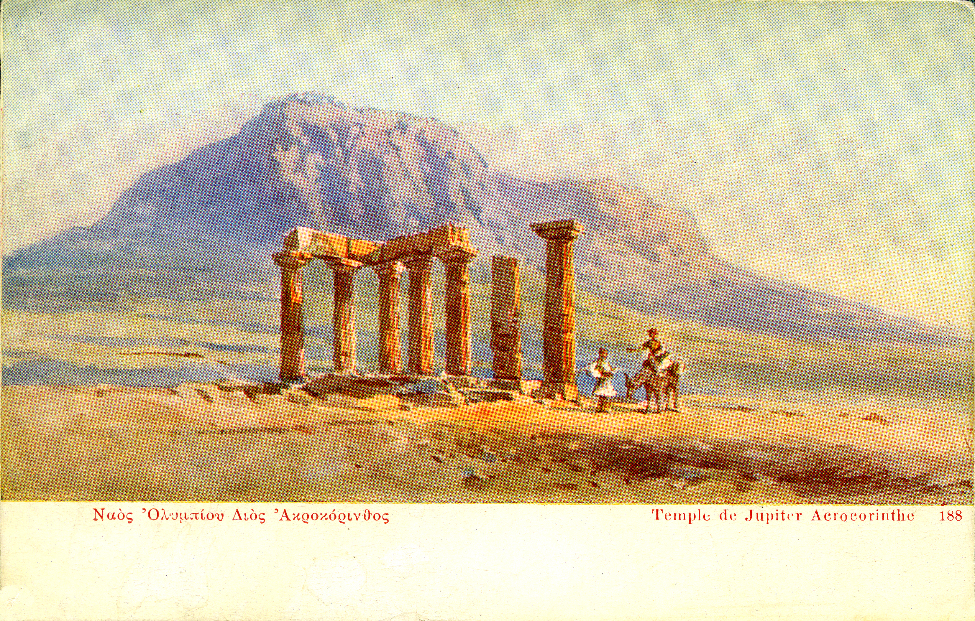 The temple of Olympian Zeus in Acrocorinth. Postcard published by Aspiotis. Reproduction of a painting by Angelos Giallinas.